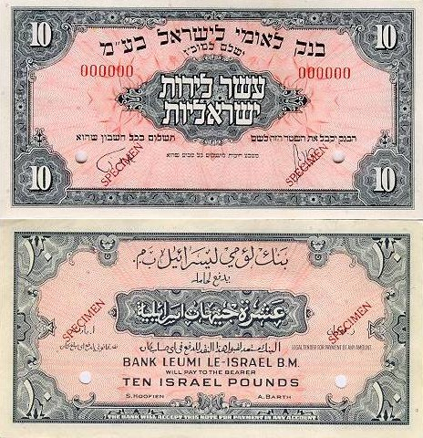 Obverse & Reverse side of a 10 Israel Pound bill, paper.